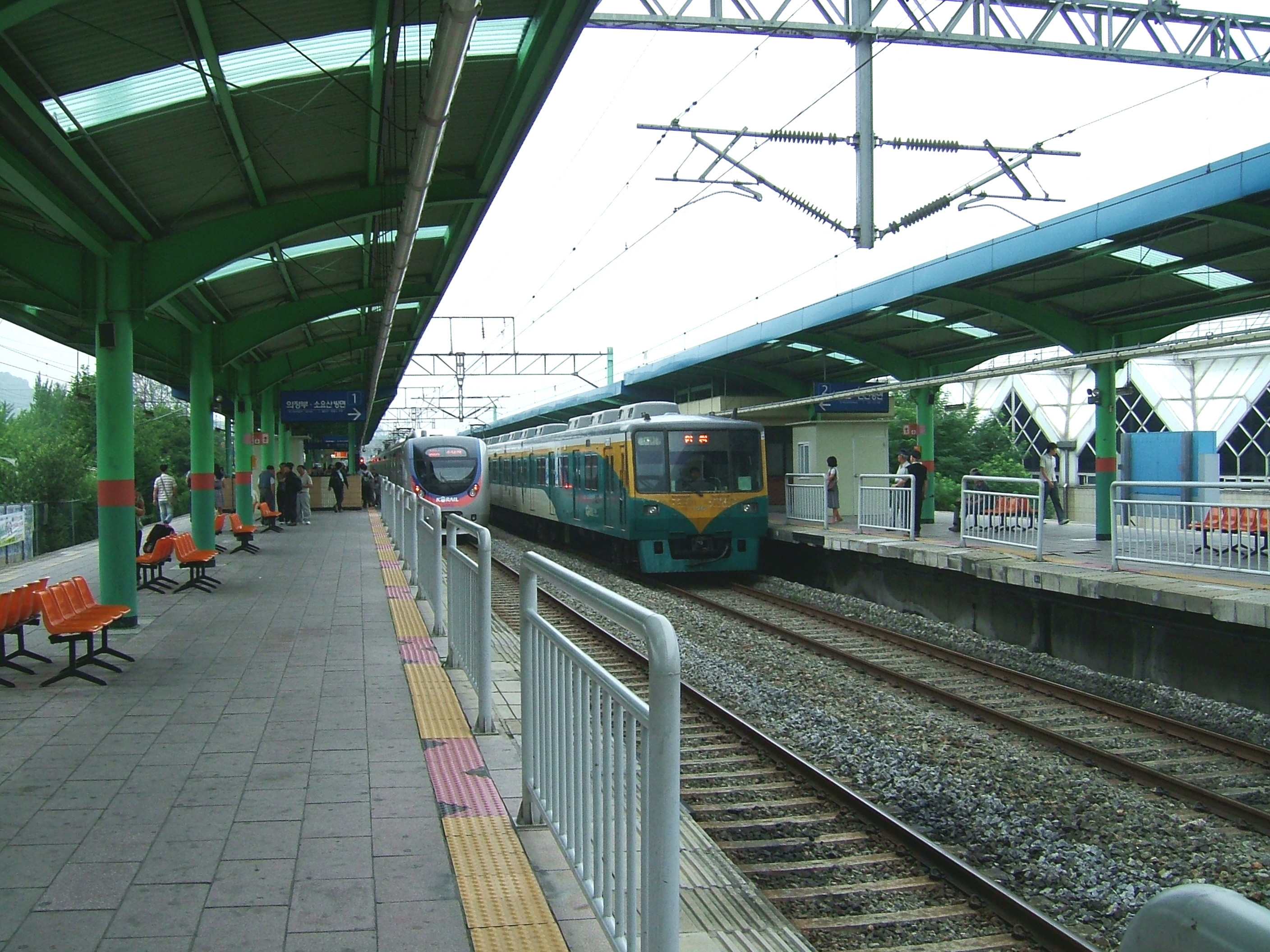 The platforms at Dobongsan Station on Seoul Subway Line 1 in Dobong-gu, Seoul, Republic of Korea(South Korea)